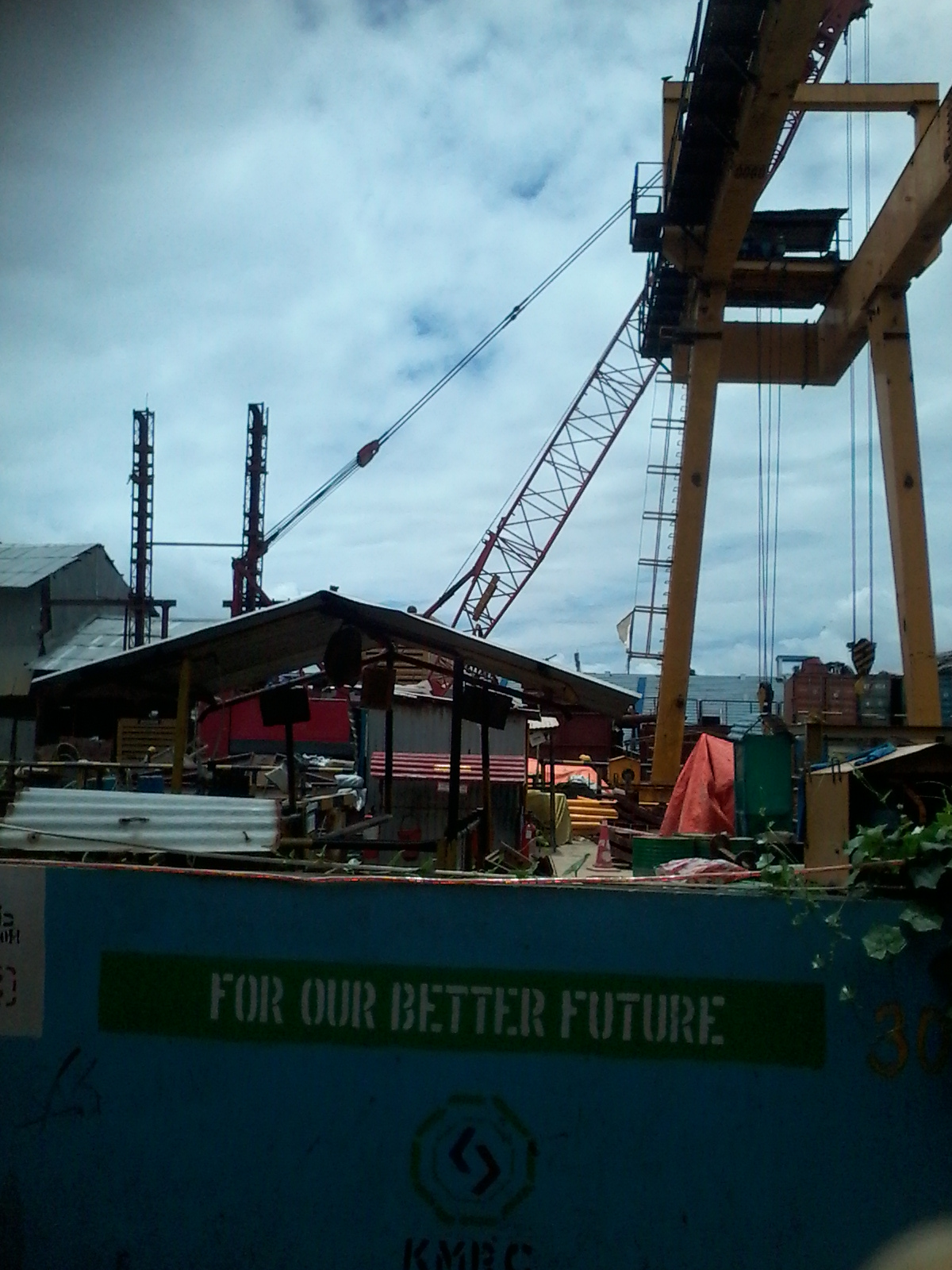 Kolkata Metro Rail Corporation (East-West Metro), Howrah Maidan